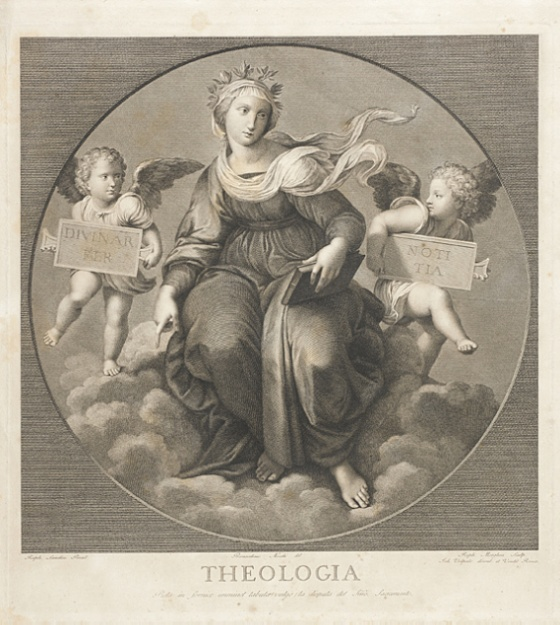 Italy, 1781 Alternate Title: Theologia Prints; engravings Engraving Gift of Mrs. Louisa Janvier (A.1136.21.16) Prints and Drawings